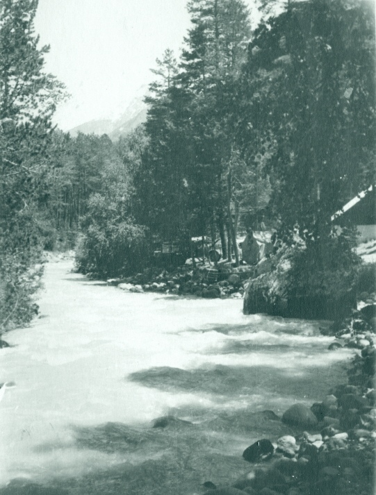 Baksan River in the North Caucasus, Kabardino-Balkaria. (picture - July 1958)